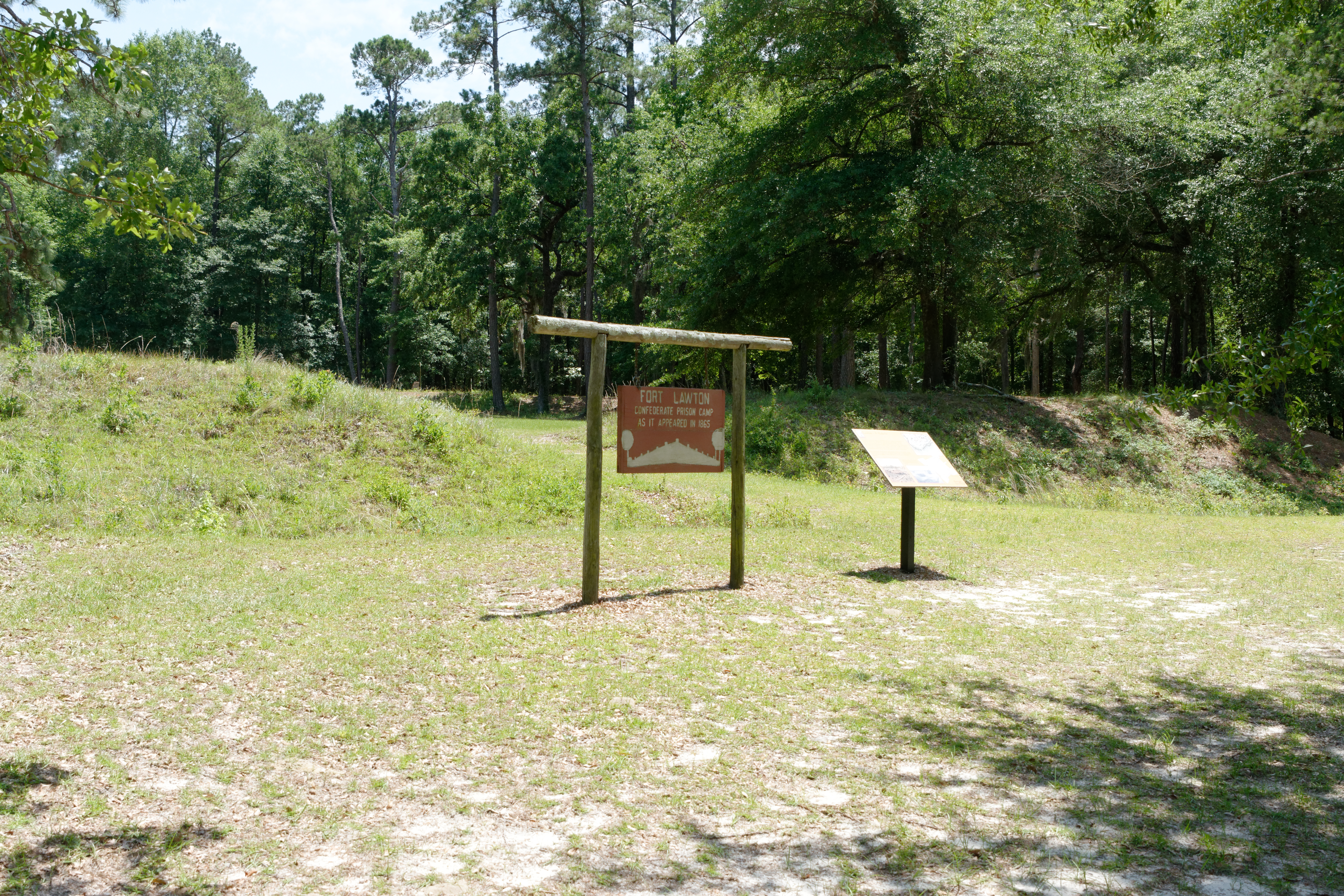 Camp Lawton earthenworks, in Magnolia Springs State Park, Jenkins County, Georgia, US